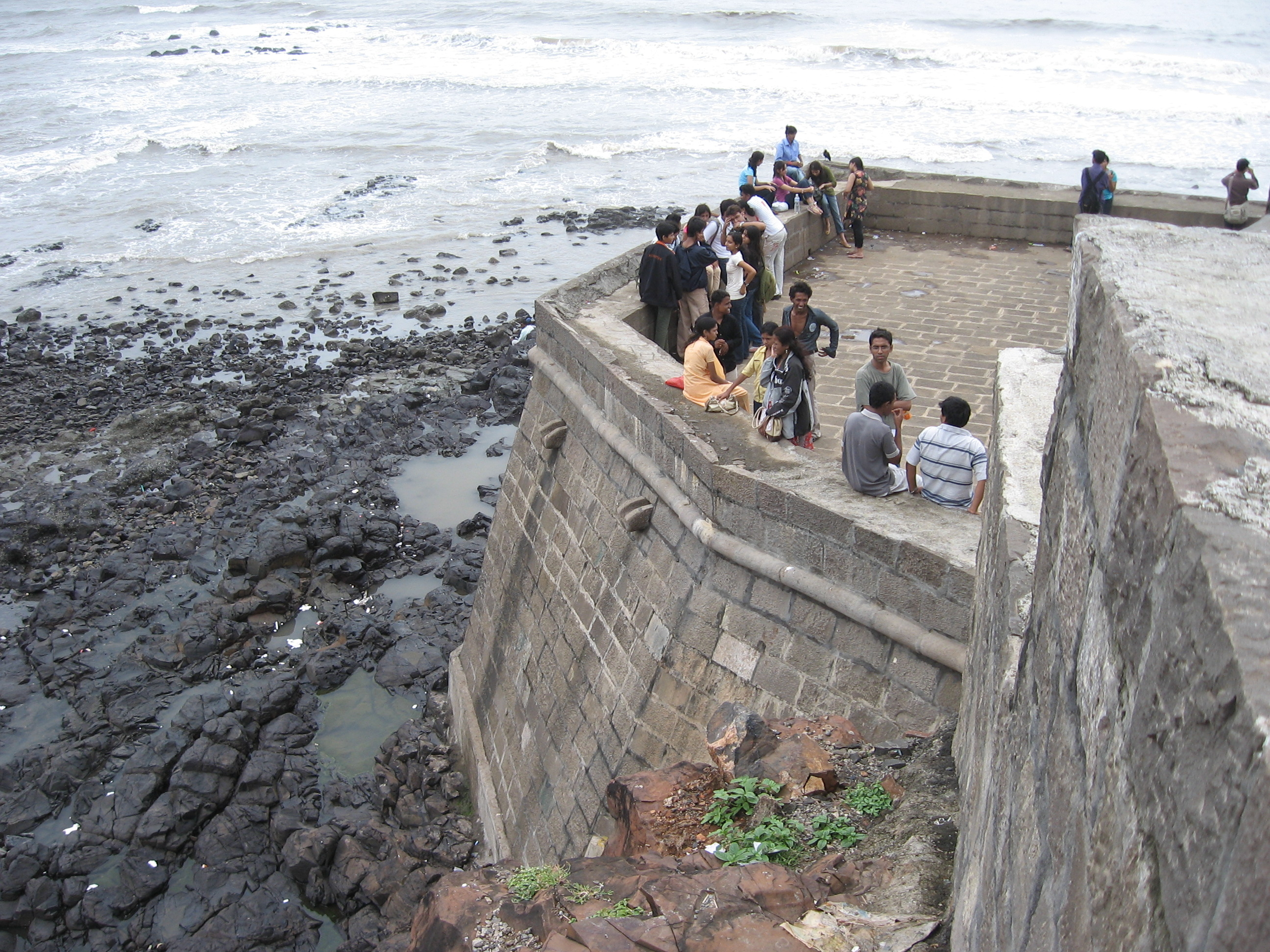 Castella de Aguada a Portuguese fort in Bandra, Mumbai, now in ruins. The fort overlooks the Mahim Bay